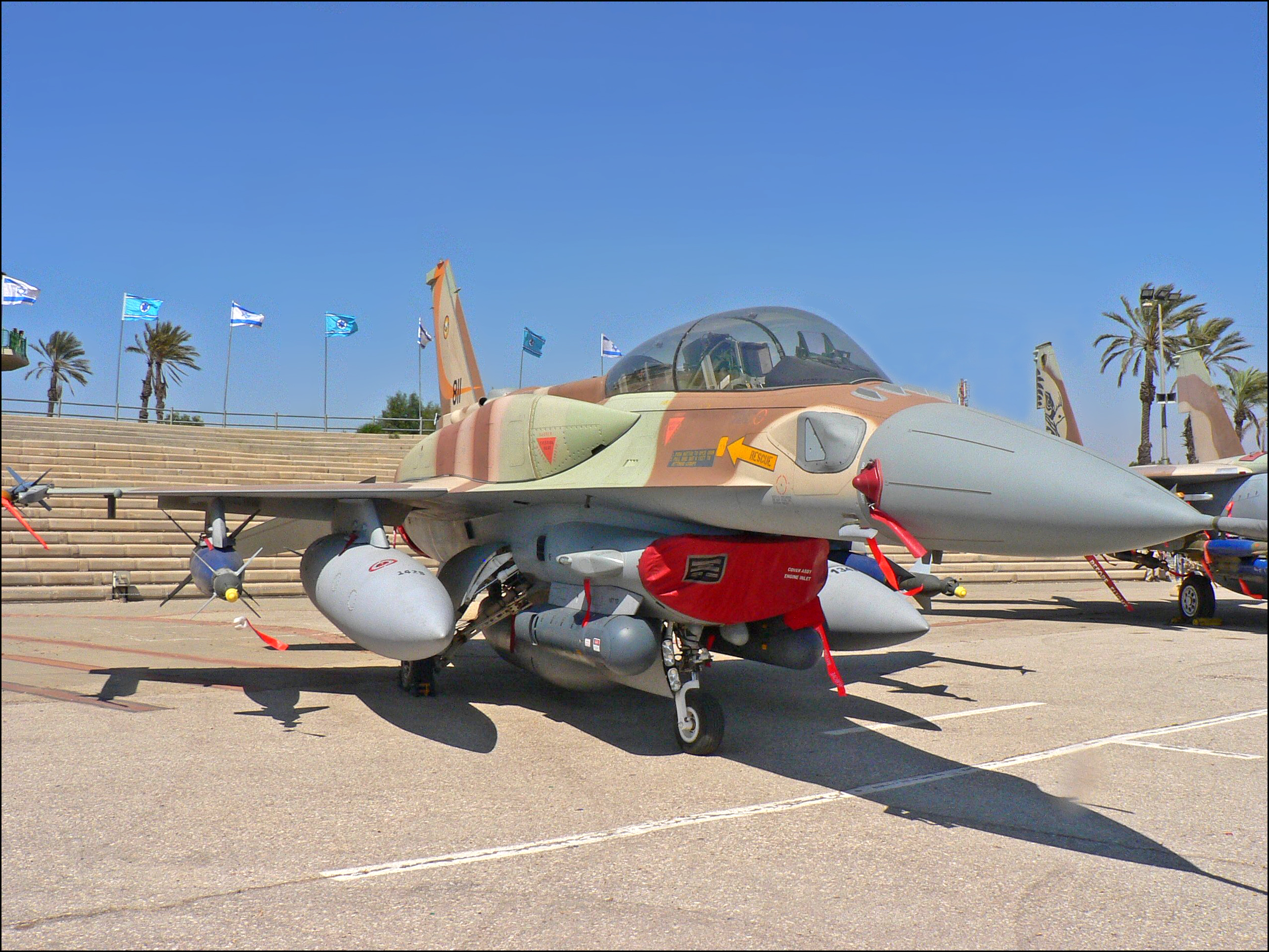 IAF F-16I Sufa, Israel Independence Day, April 24, 2007